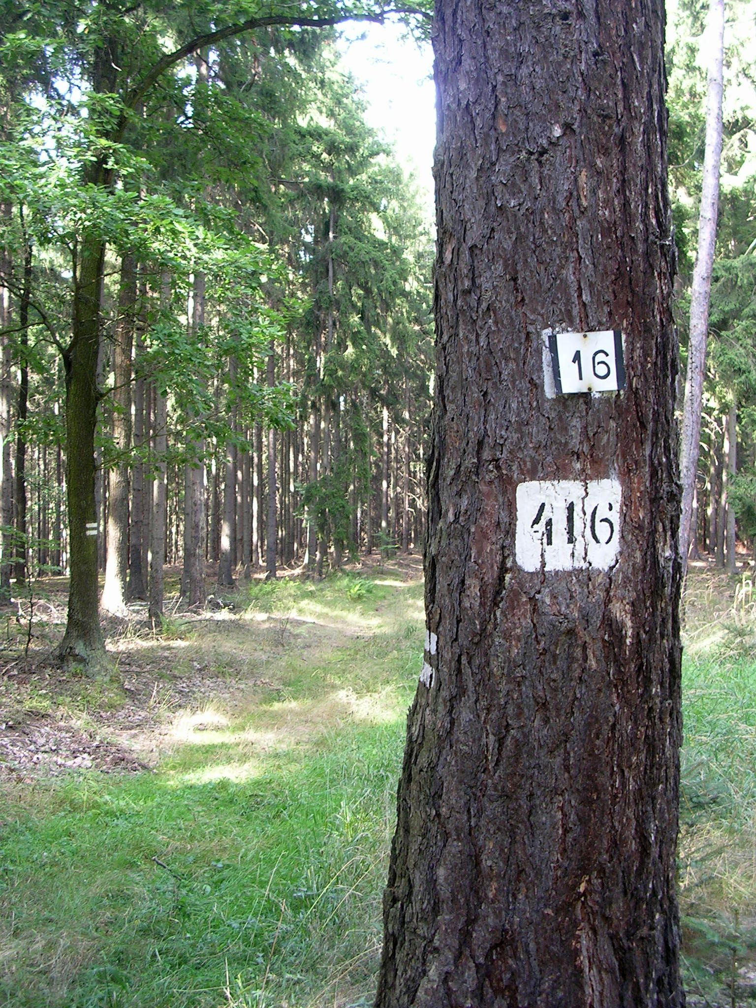 Roztoky, Rakovník District, Central Bohemian Region, the Czech Republic. Forestry signs.